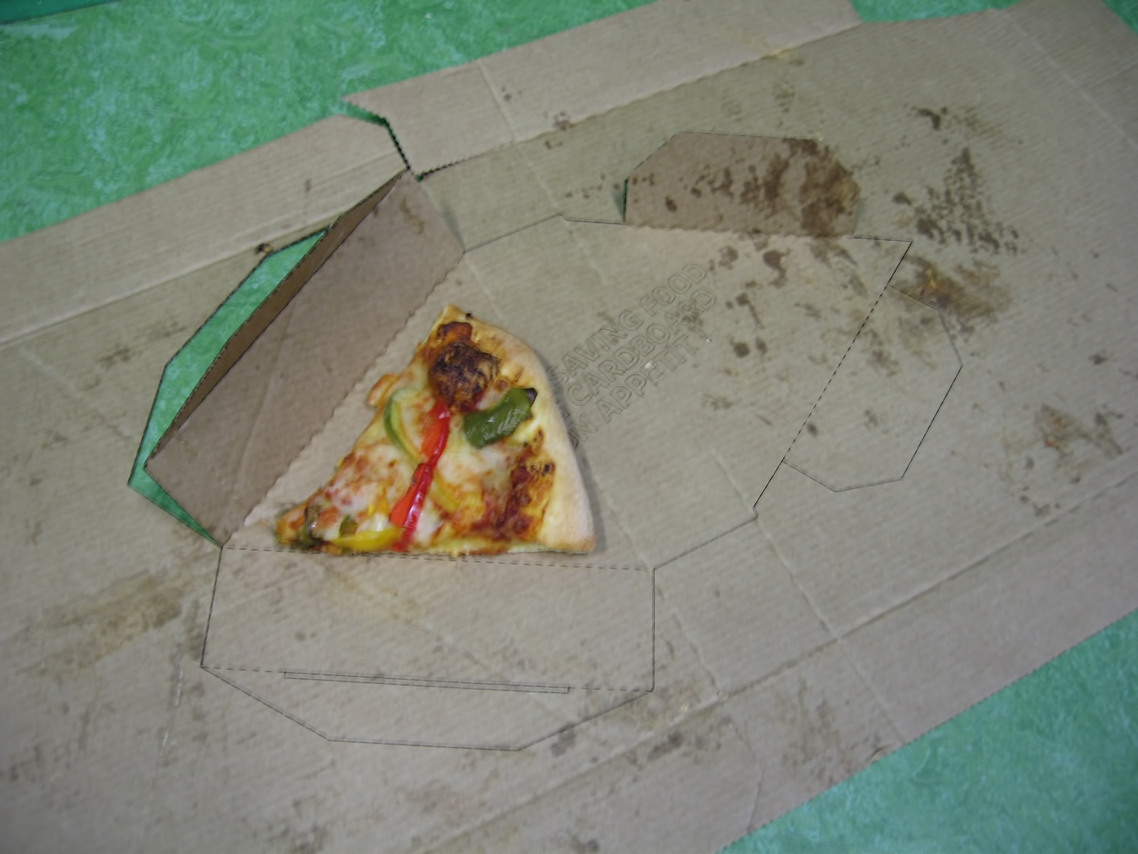 Precut pizza slice box in a pizza box.